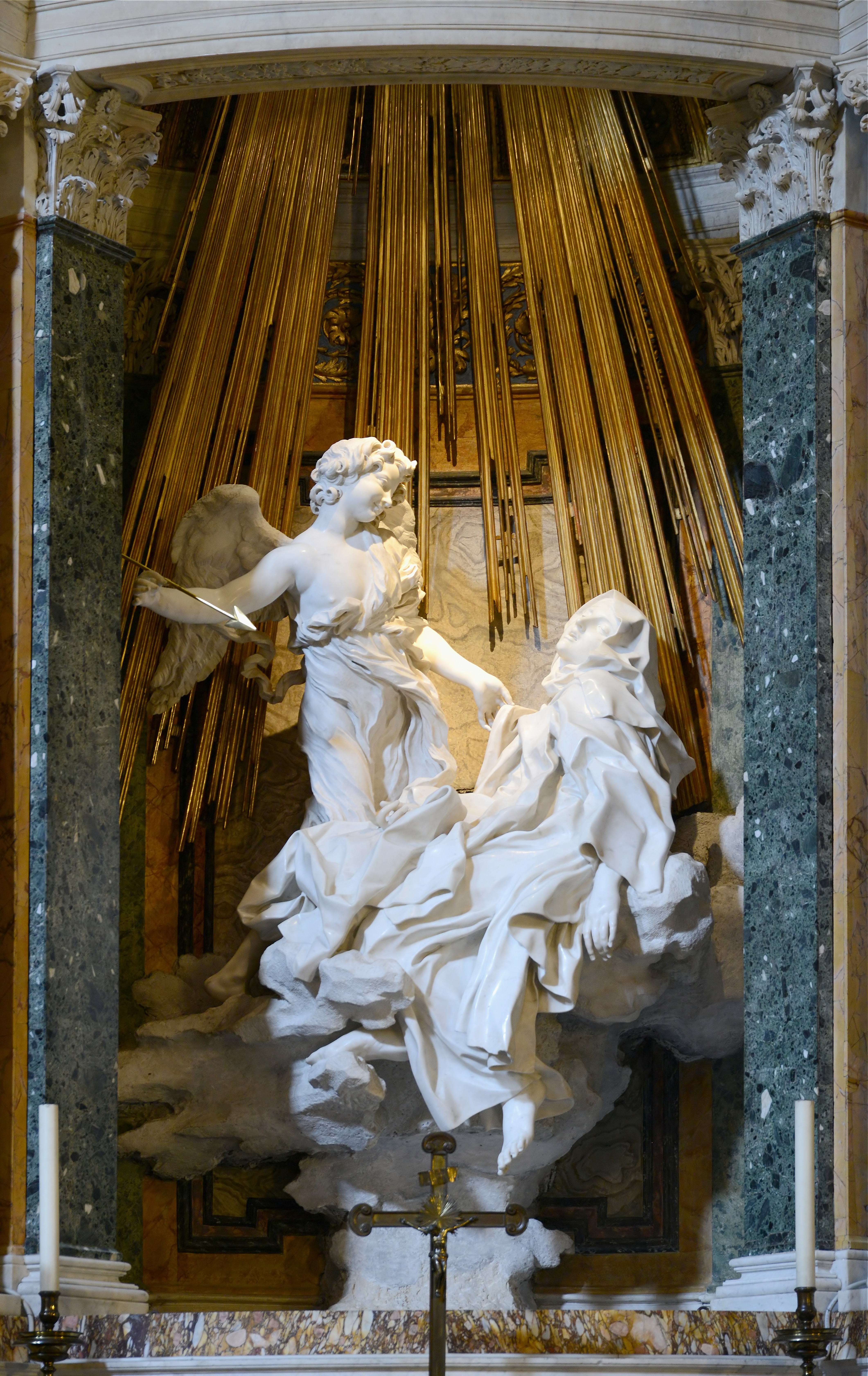 The Ecstasy of Saint Theresa by Giancarlo Bernini. Church of Santa Maria della Vittoria, Rome